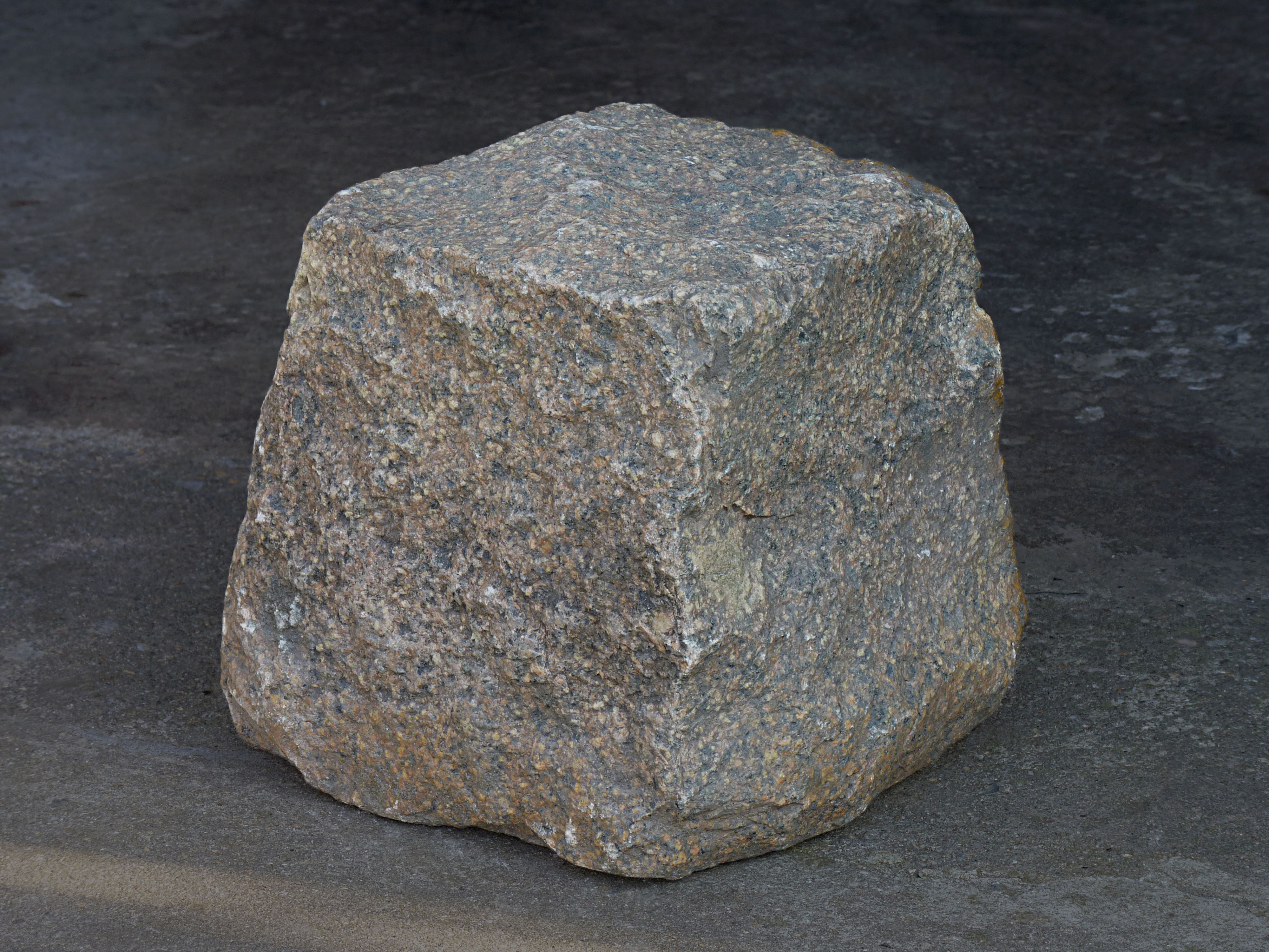 Paving block (sometimes incorrectly called "cobblestone" coming from the rue du Couët in Mouscron, Belgium. Base 1: 14 cm x 14 cm, Base 2: 11 cm x 11cm, H: 13 cm. Weight: 5,8 kg